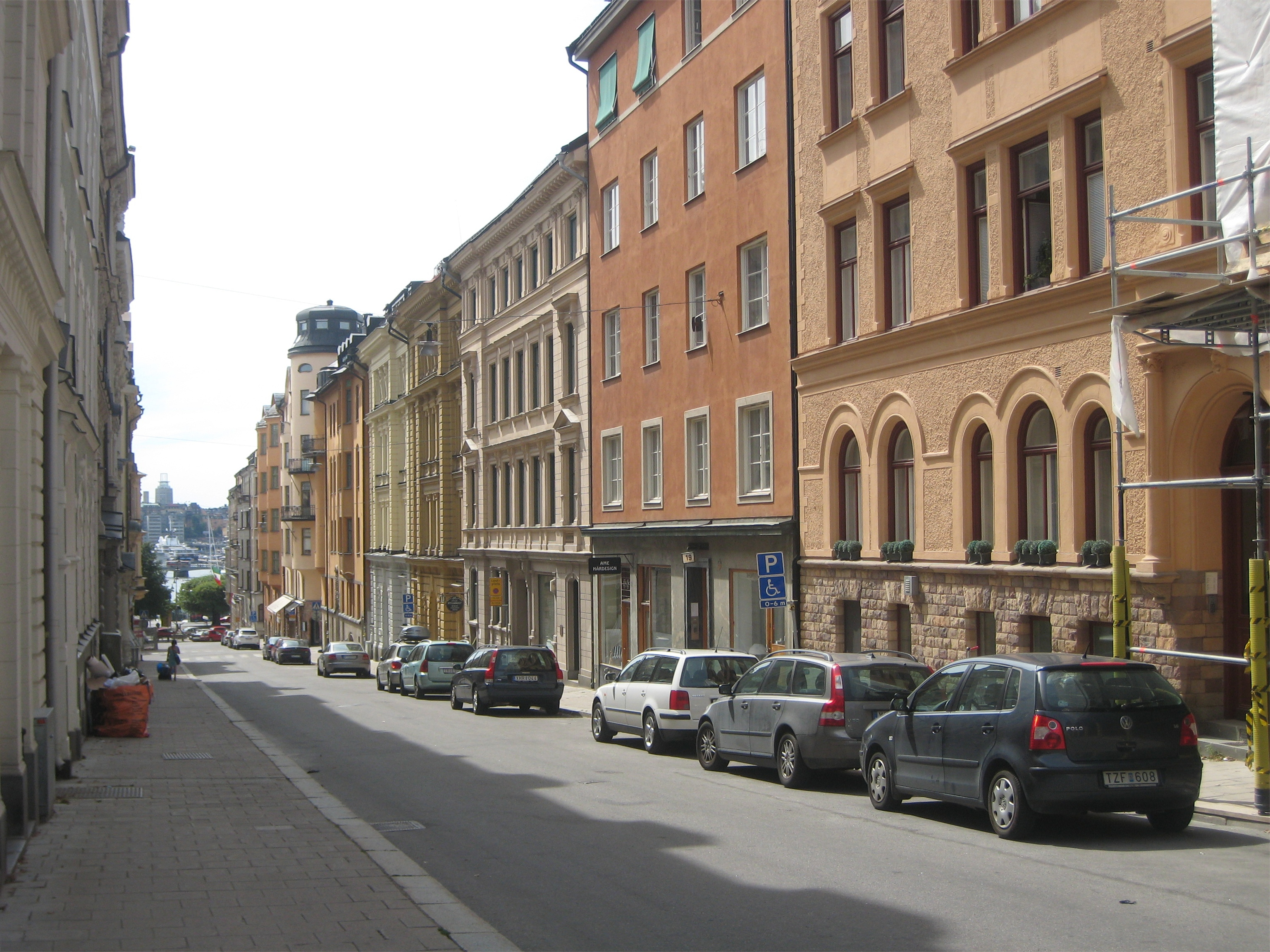 Grevgatan, July 2010.